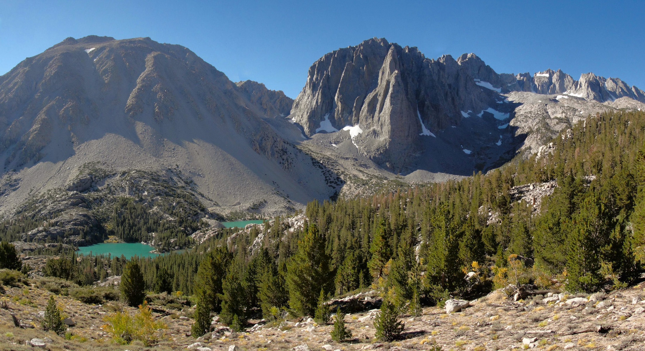 Mount Alice and Temple Crag in the Sierra Nevada